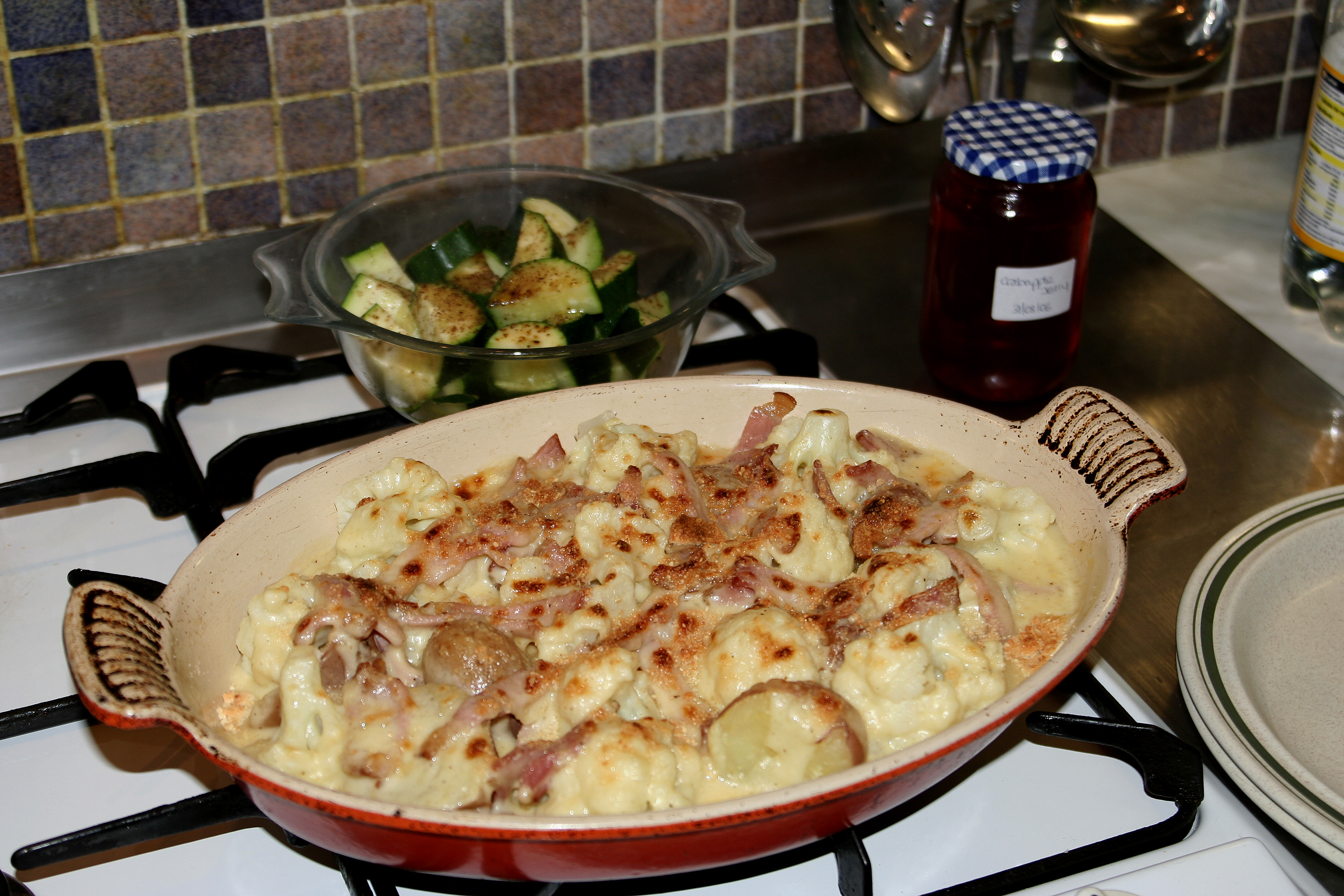 The butcher had a lovely small cauliflower with really clean creamy curds. It made a terrific cauli cheese, with a few courgettes (our own) on the side. Urp.